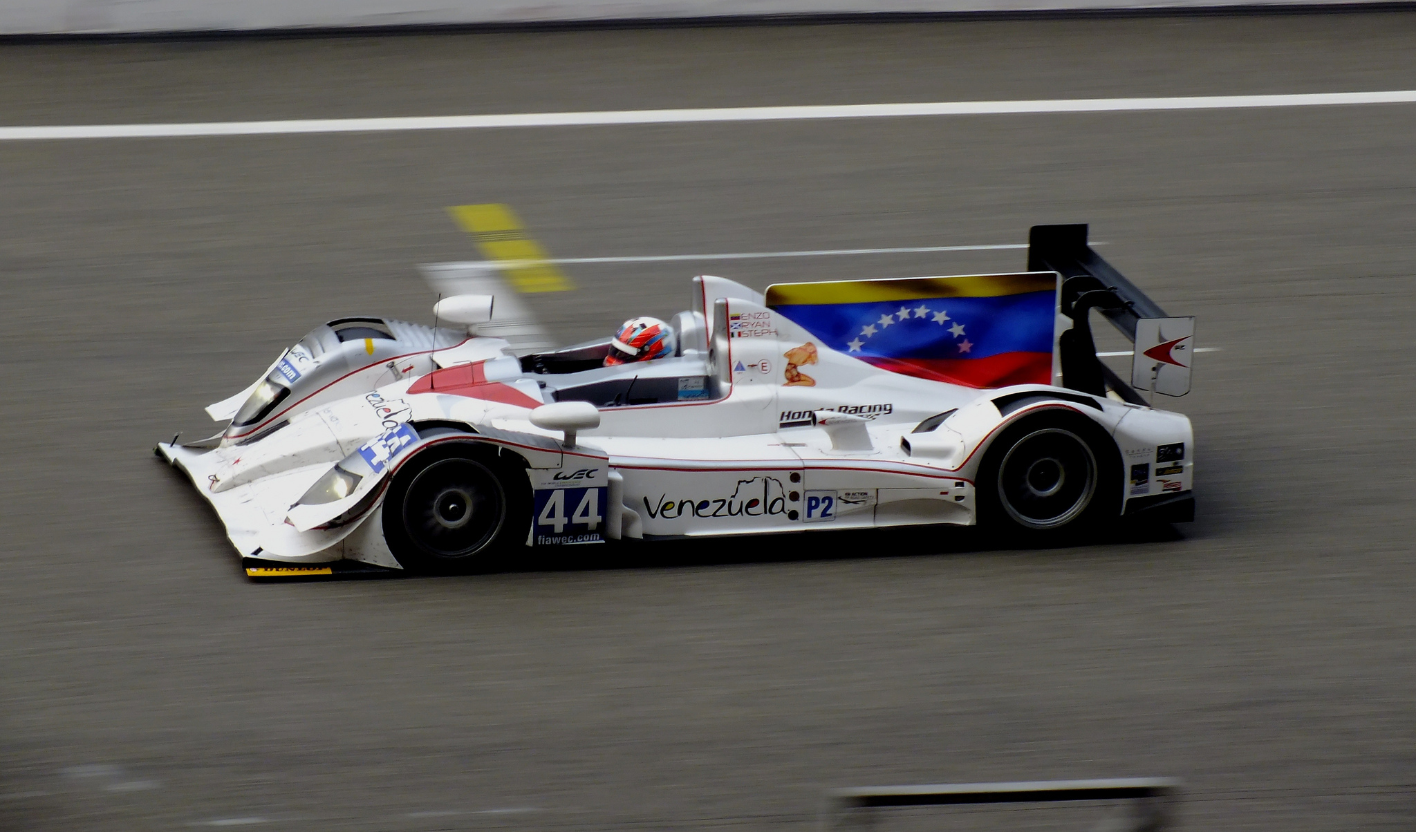 Ryan Dalziel in the Starworks Motorsport HPD ARX-03b-Honda at the 2012 6 Hours of Shanghai